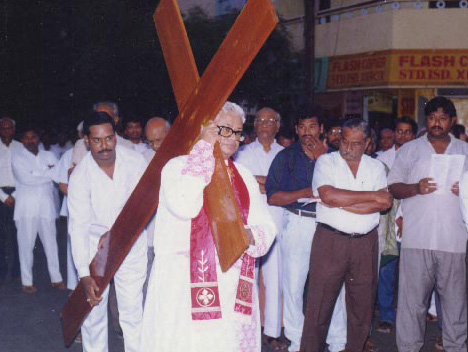 During Way of Cross on Good Friday in Streets of Pondicherry, Archbishop Michael Augustine carrying Cross